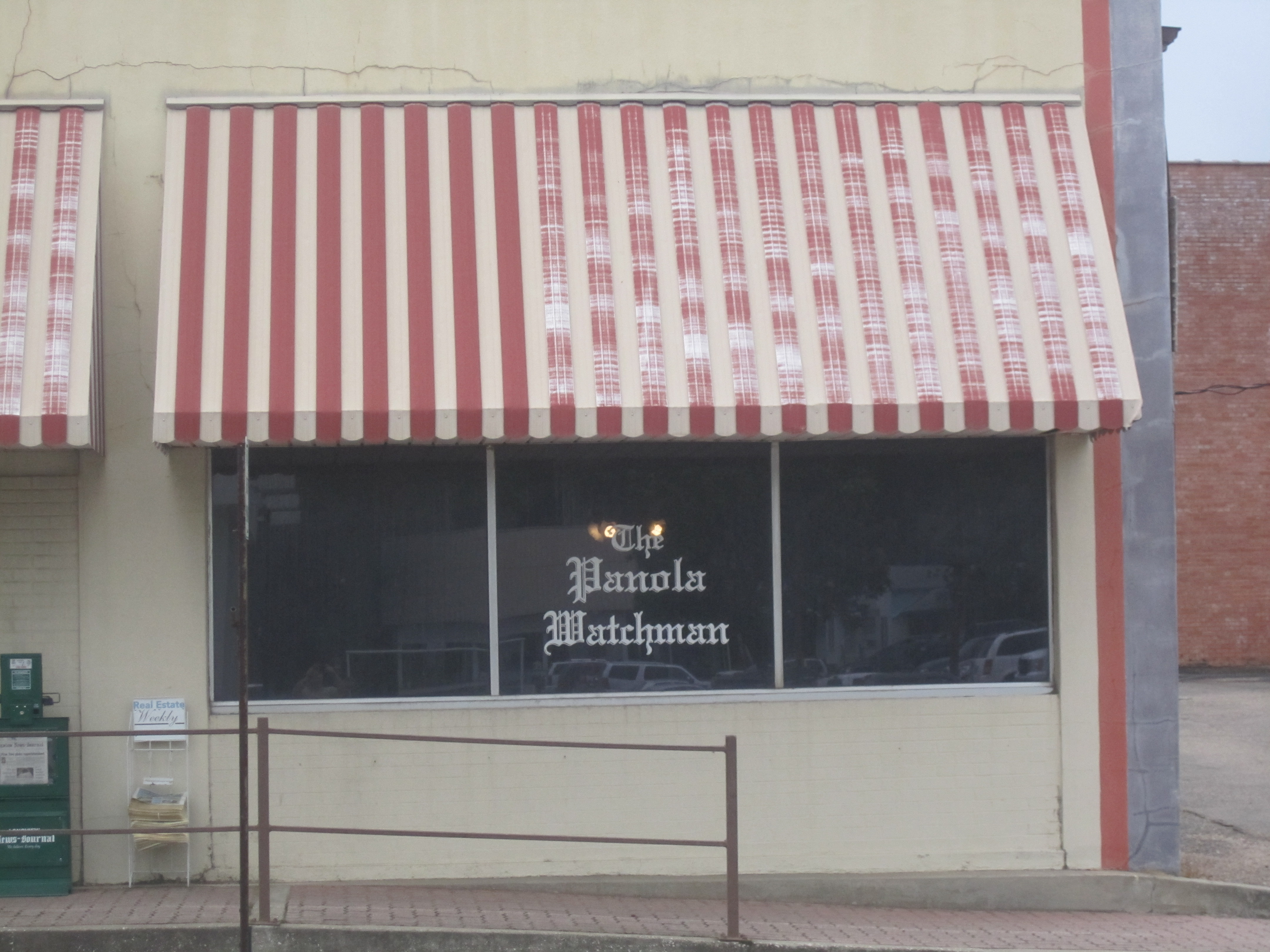 I took photo in Carthage, TX, with Canon camera.